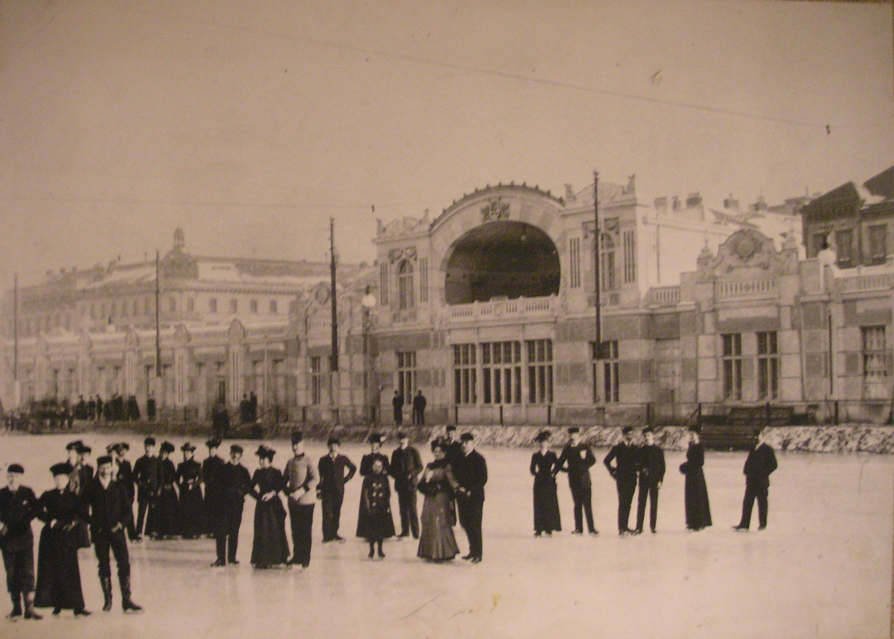 Ice-skating ring of the Vienna Eislauf-Verein at Heumarkt, Vienna, next to the Stadtpark.